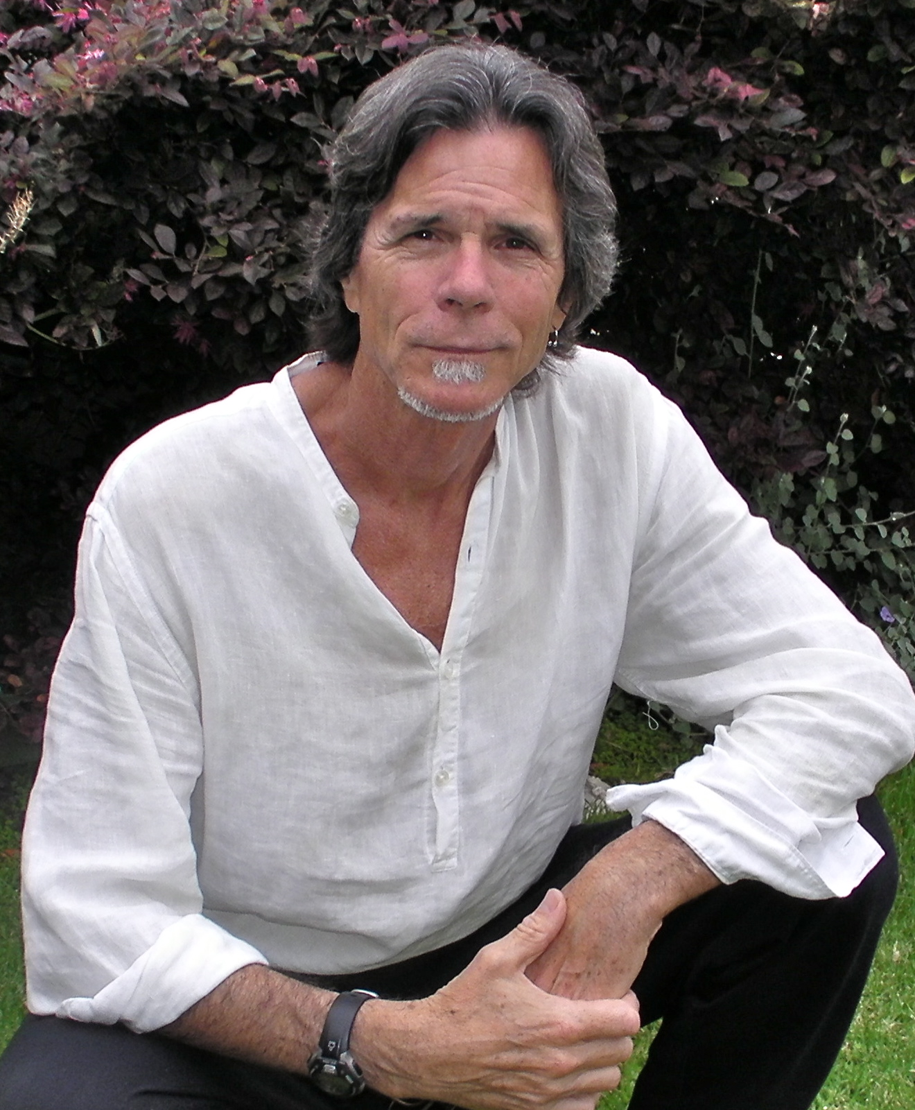 Brad Willis in San Diego